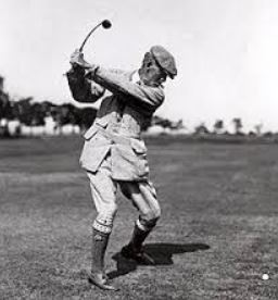 Walter Travis, at the top of his backswing (c. 1919) Copyrights likely remain with the original photographer (unknown) and almost certainly deceased. Photo is unsigned, undated, therefore the copyright owner (if any) cannot be determined by me.--EditorExtraordinaire (talk) 19:52, 19 April 2015 (UTC)